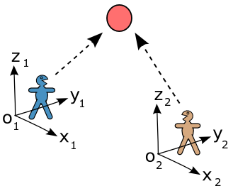 Frame of Reference